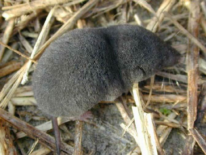 American short-tailed shrew